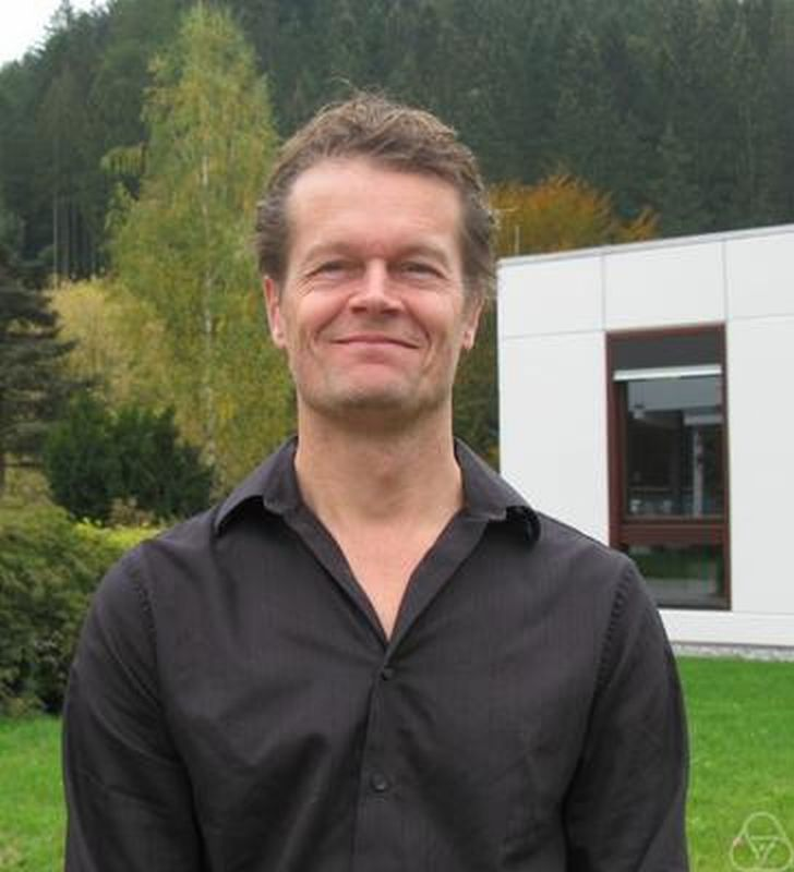 Aad van der Vaart, Oberwolfach 2011